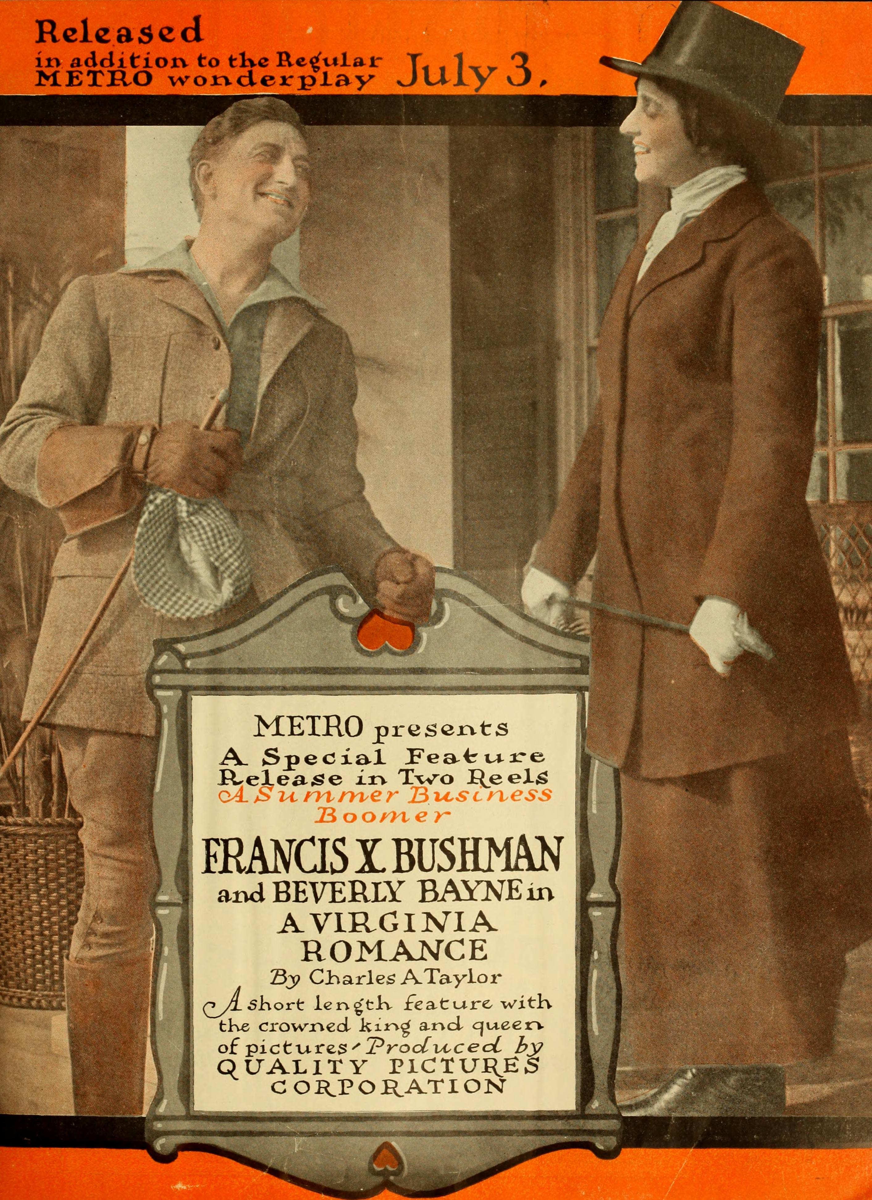 Advertisement in The Moving Picture World for the film A Virginia Romance (1916).